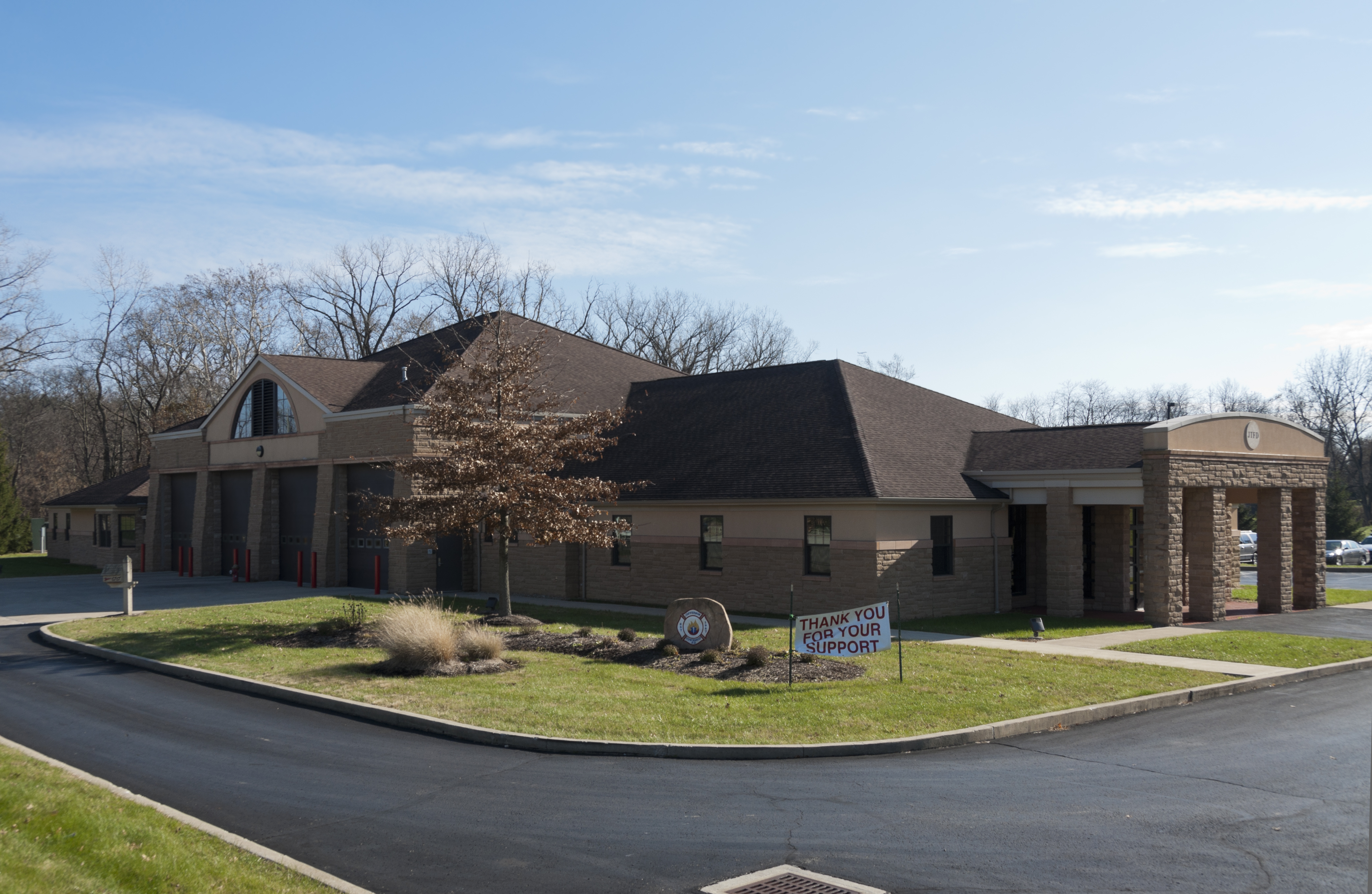 Jefferson Township Fire Department Headquarters building viewed from the northwest. The Jefferson Township Fire Department was established in 1967.